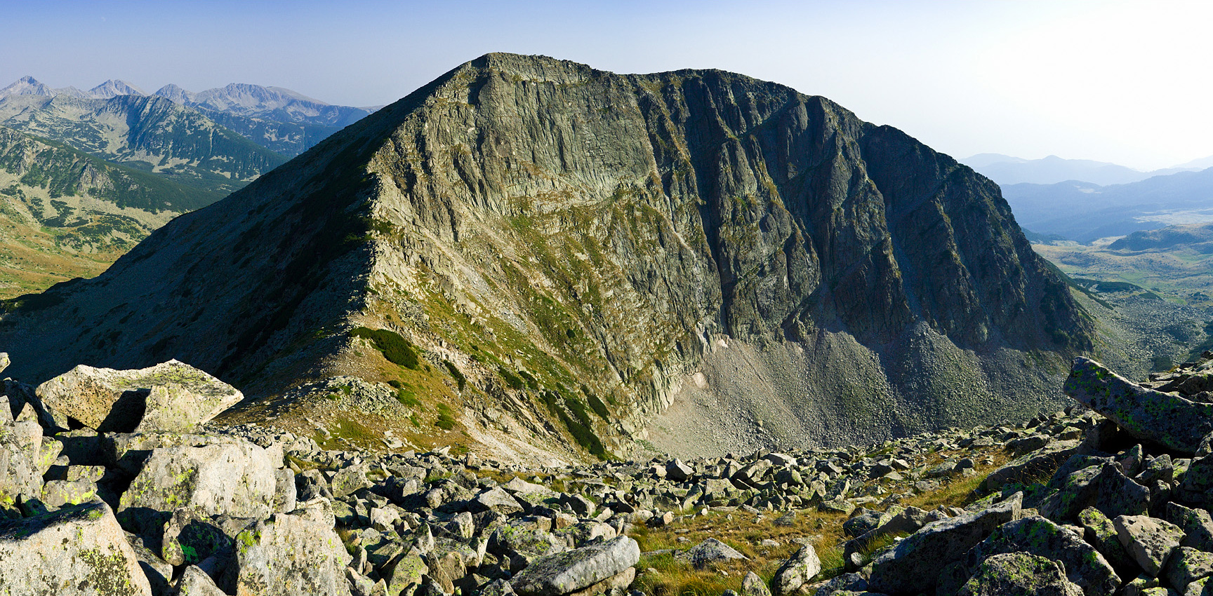 Bashlijski chukar peak, Pirin mountain, Bulgaria